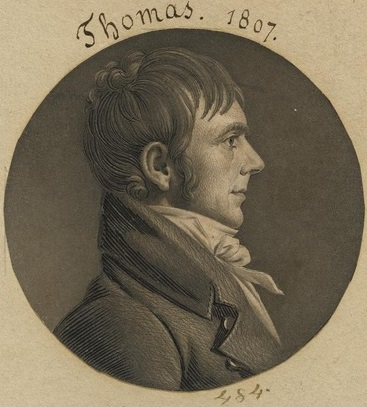 David Thomas, Congressman from New York and state Treasurer